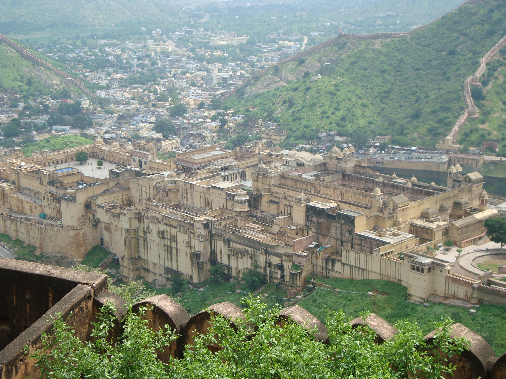 View of Amber Fort from Jaigarh.